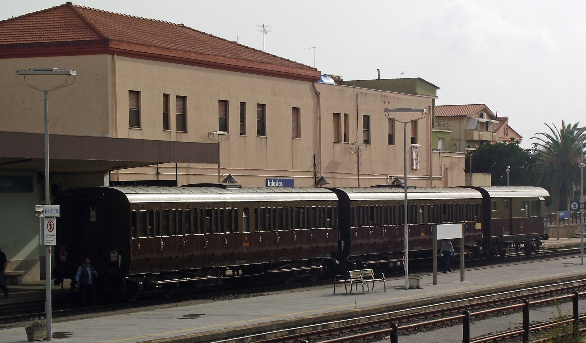 "Centoporte" coaches number 36849 and 37068, plus luggage van, inside the Iglesias train station, Sardinia, Italy